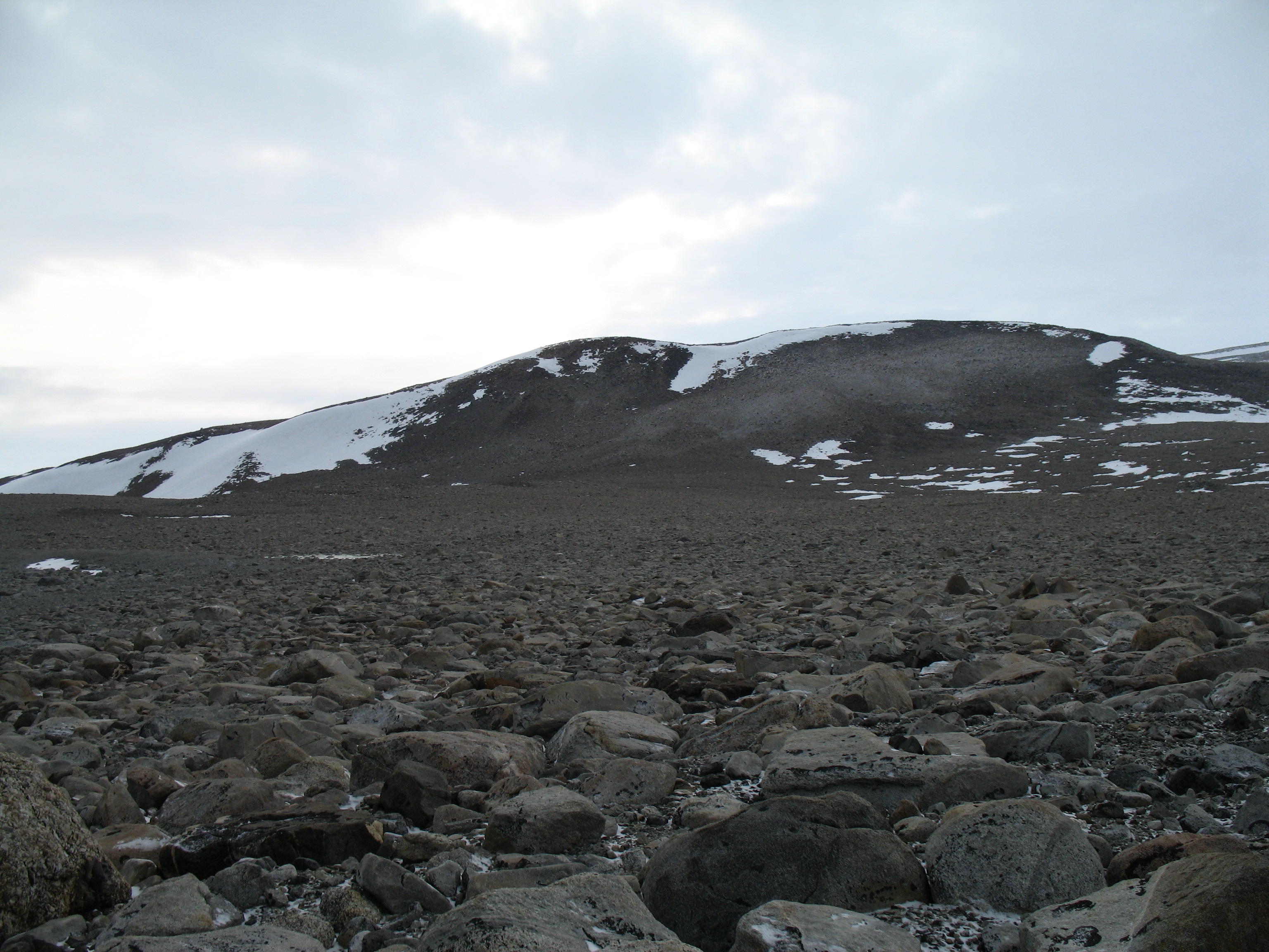 A view looking out over Inexpressible Island